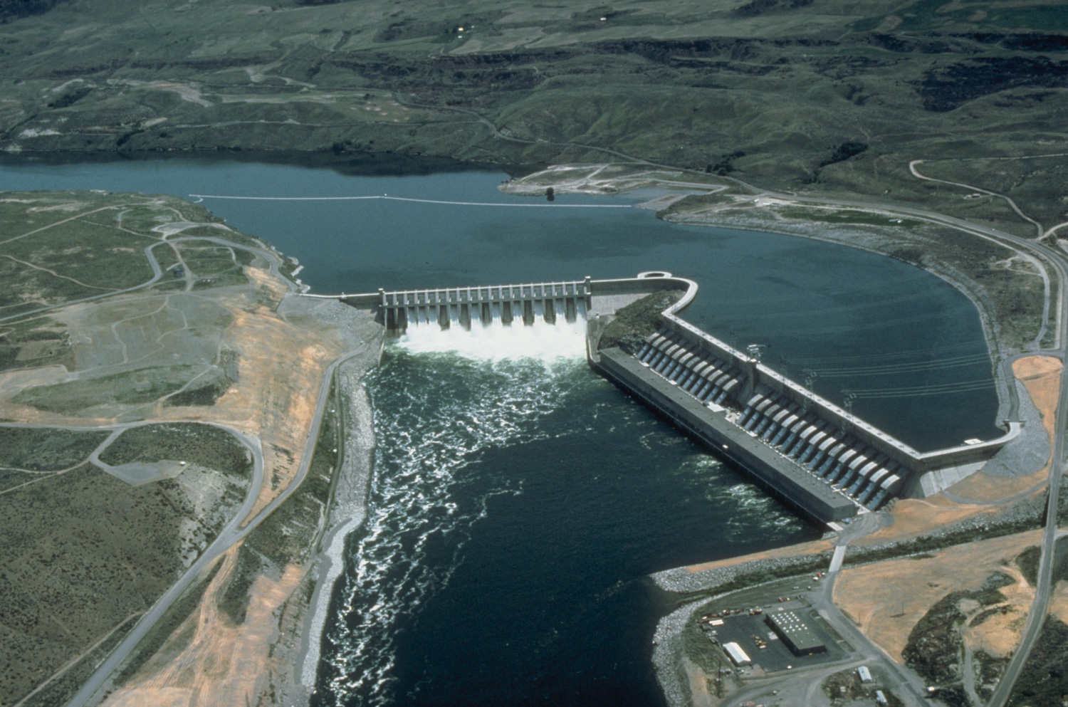 Chief Joseph Dam on the Columbia River near Bridgeport, Washington, USA. The dam is operated by the U.S. Army Corps of Engineers.